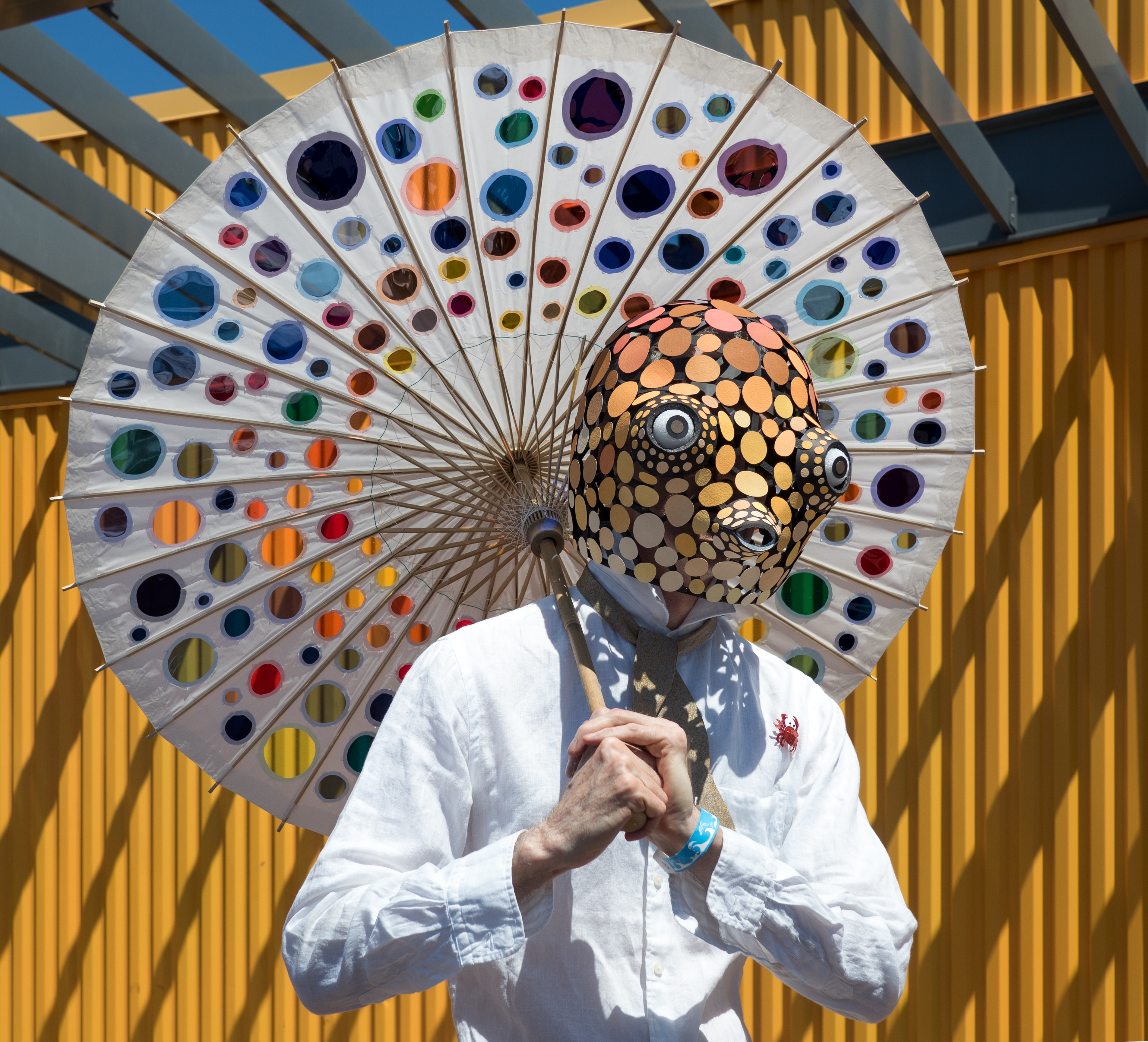 Man in a sea creature mask, holding an umbrella with colored cut-out circles, on the Riegelmann Boardwalk during the Coney Island Mermaid Parade in June 2018.